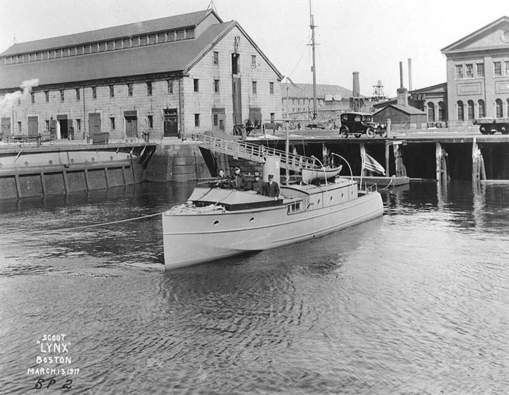 Photo #: NH 102013. Lynx (U.S. motor boat, 1916). Built by George Lawley & Son. Photographed at the Boston Navy Yard on 13 March 1917, with Navy personnel on board and a gun mounted. She was formally acquired by the Navy on 21 April 1917 and commissioned on 9 July 1917 as USS Lynx (SP-2). Stricken on 24 August 1919, she was disposed of by burning on 4 September 1919. Several battleships are in the distance. The bow of USS Constitution is at right. The original print is in National Archives' Record Group 19-LCM. U.S. Naval Historical Center Photograph.